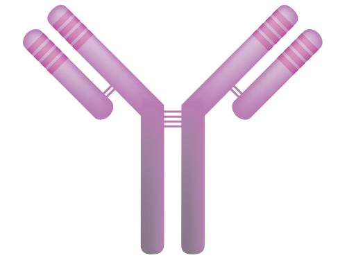 (Immunoglobulin). Images are from Togo picture gallery maintained by Database Center for Life Science (DBCLS).